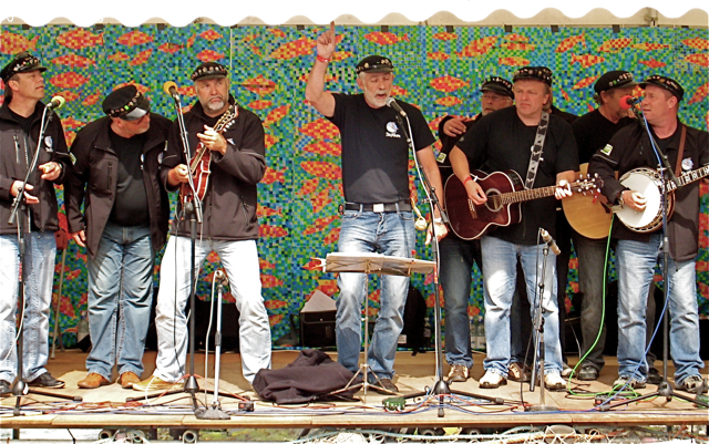 Portsoy: Slogmaakane at the Portsoy Boat Festival Slogmaakane (Greedy Seagulls) is a group of 20 male sea shanty singers from the island of Karmoy in Norway. Here they are performing on the harbour front at Portsoy during the 15th Scottish Traditional Boat Festival.